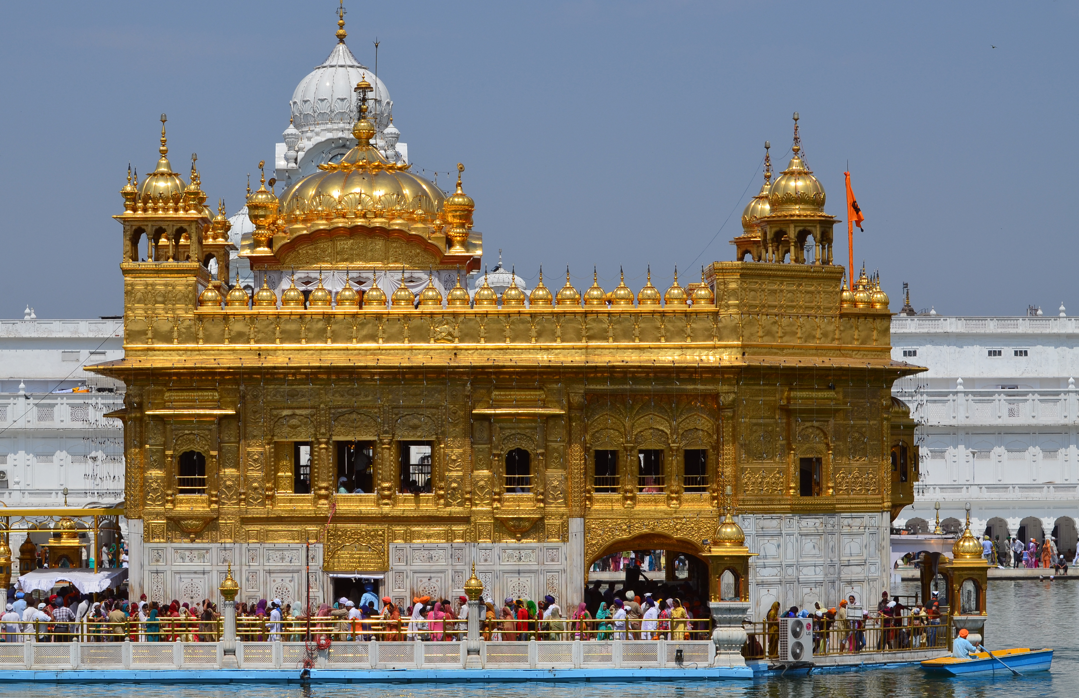 Shining in gold and standing as a symbol of human brotherhood and equality, The Golden Temple is a pious place for the Sikhs. The great Guru Granth Sahib- the holy book of the Sikhs was first installed here after its compilation on Aug 16, 1604 A.D.